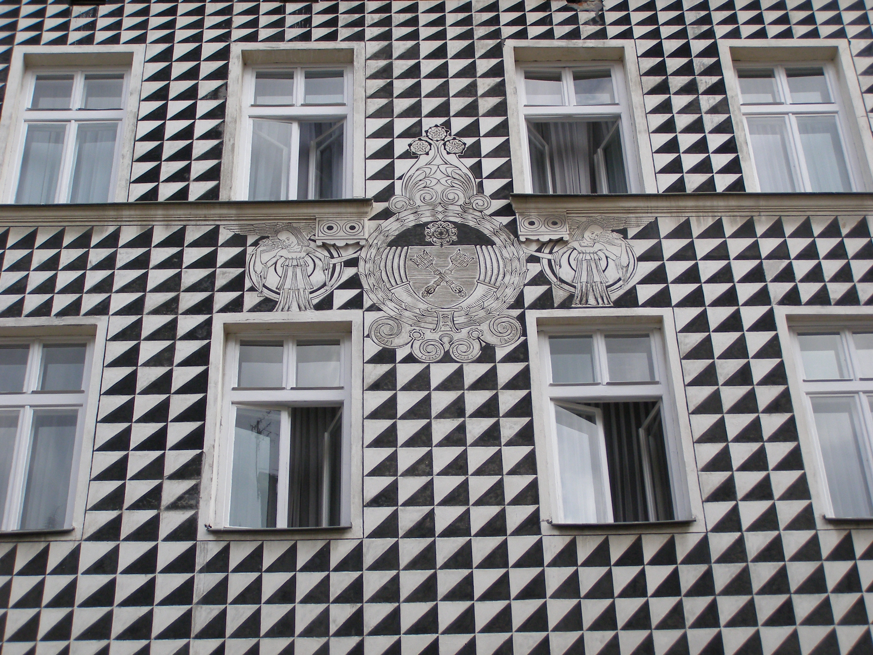 Kraków - facade of the house at 49 Floriańska str.